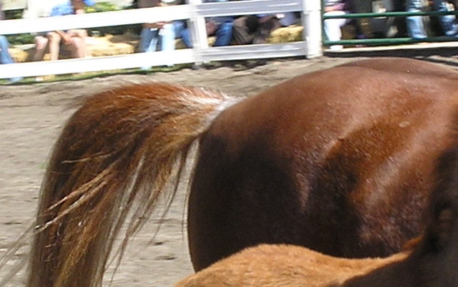 The white hairs at the base of the tail of a horse with rabicano genetics, sometimes called a "skunk tail"